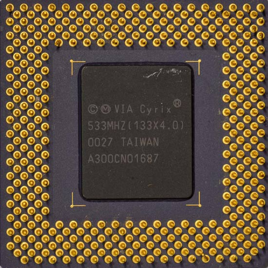 Cyrix III (533MHz) back